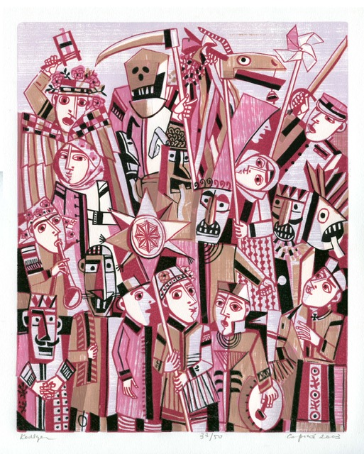 Kolyada, color linocut, 2003